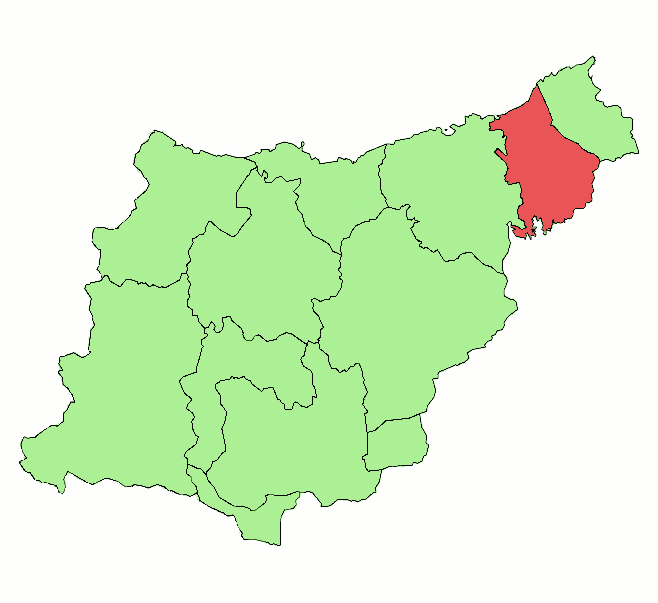 Oarsoaldea region in the province of Gipuzkoa